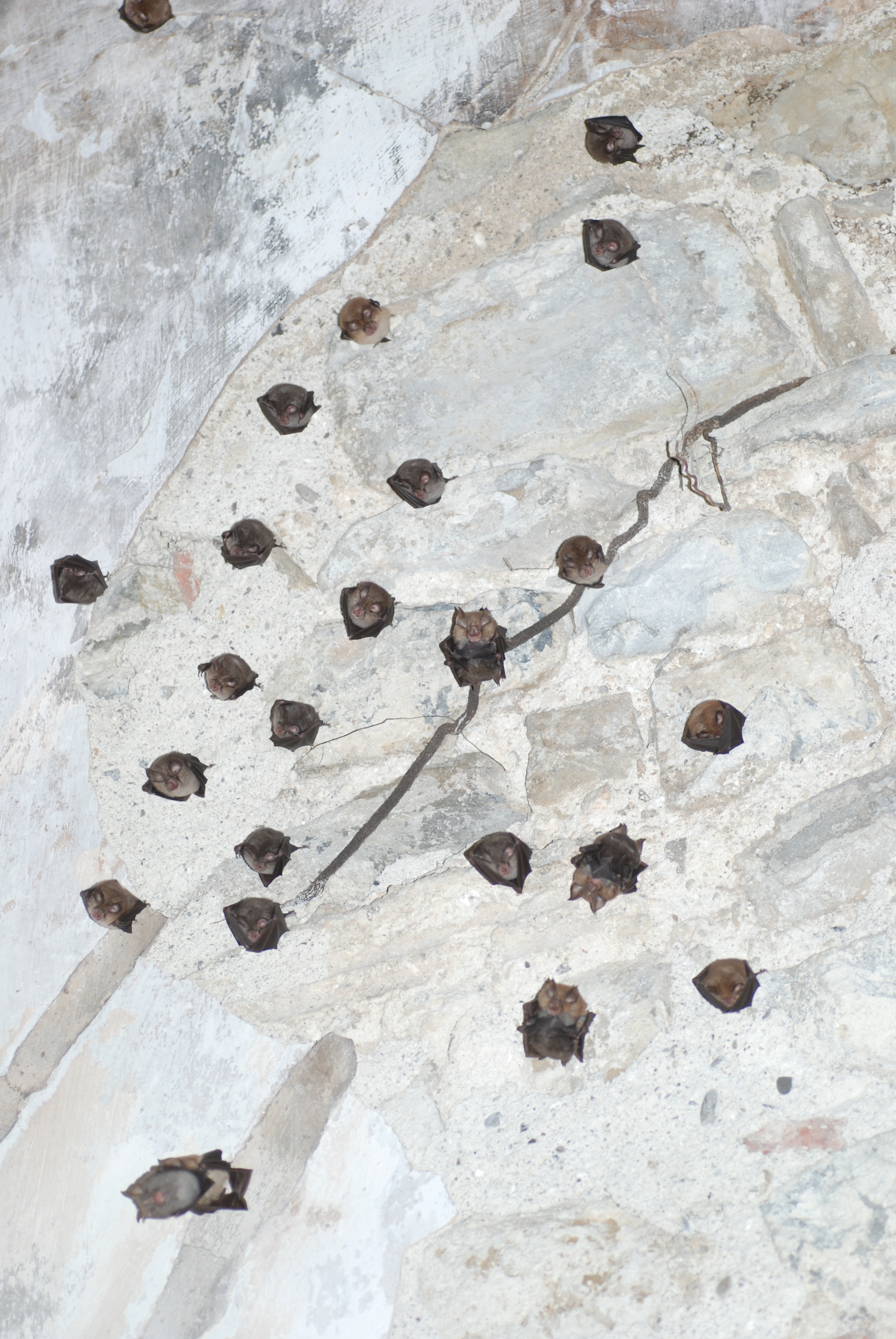 Rhinolophus hipposideros (Lesser horseshoe bat) roosting on the ceiling of an abandoned hermitage